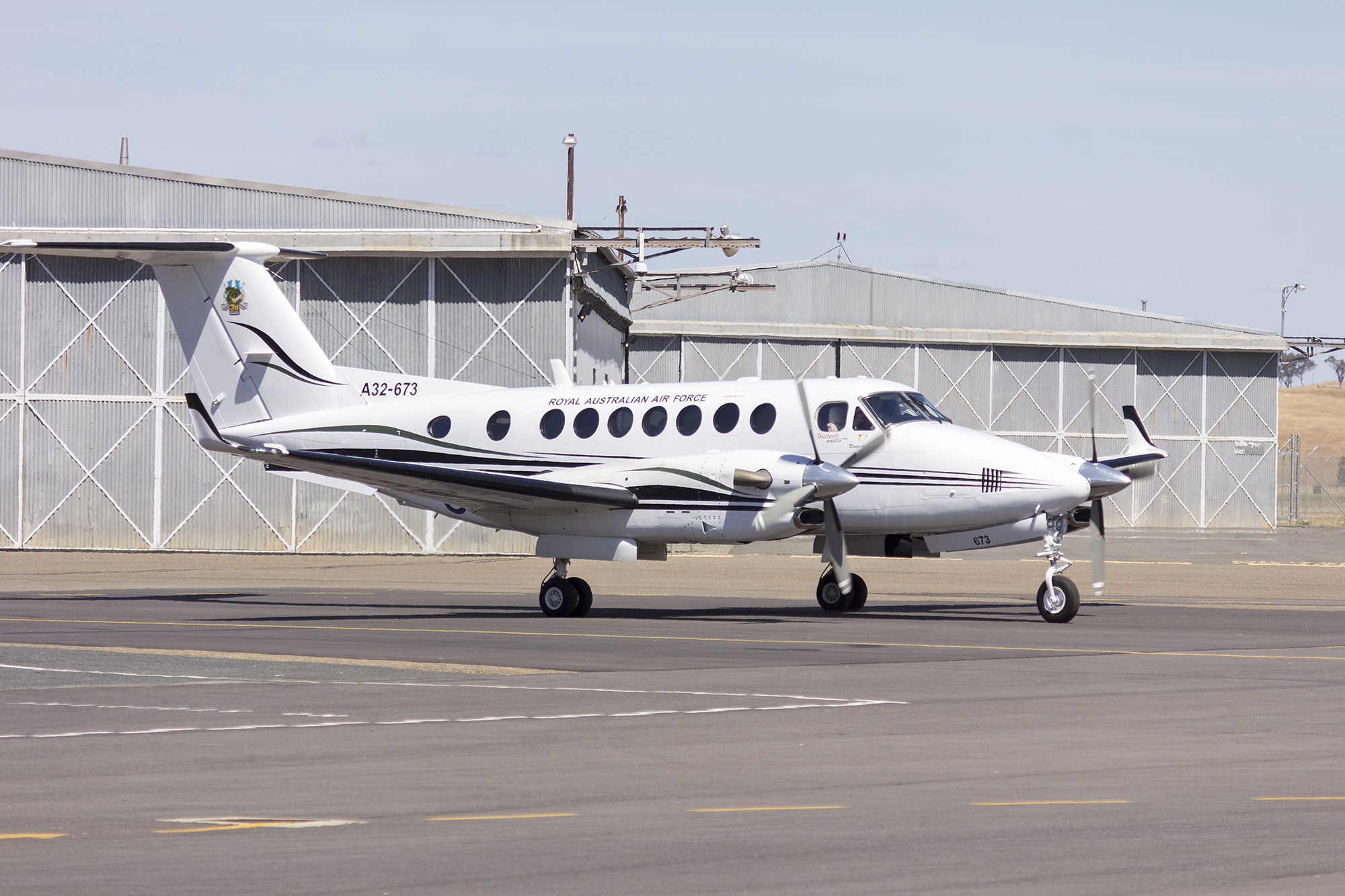 Royal Australian Air Force (A32-673) Beech King Air 350 at Wagga Wagga Airport.